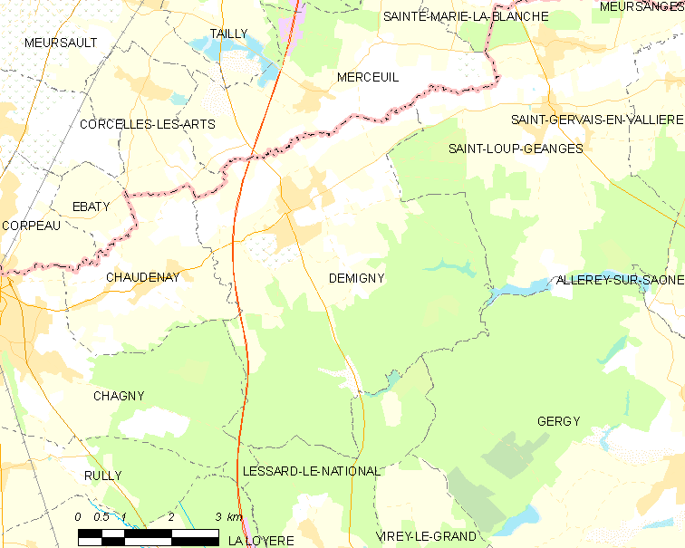 Map of French municipality